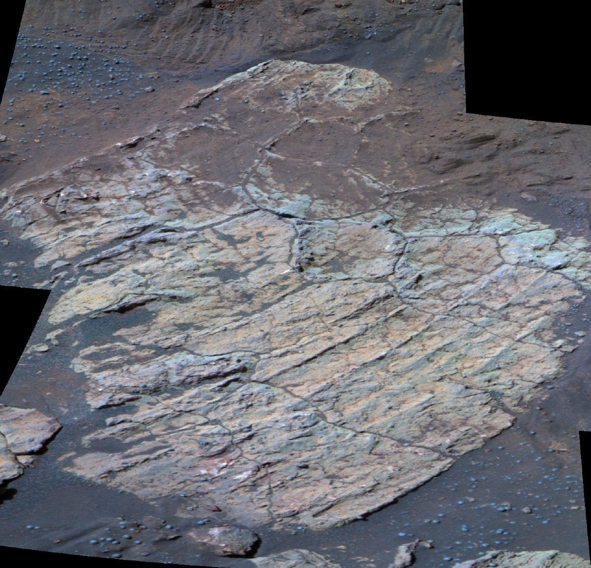 This false-color image taken by NASA's Mars Exploration Rover Opportunity shows a rock dubbed "Escher" on the southwestern slopes of "Endurance Crater." Scientists believe the rock's fractures, which divide the surface into polygons, may have been formed by one of several processes. They may have been caused by the impact that created Endurance Crater, or they might have arisen when water leftover from the rock's formation dried up. A third possibility is that much later, after the rock was formed, and after the crater was created, the rock became wet once again, then dried up and developed cracks. Opportunity has spent the last 14 sols investigating Escher and other similar rocks with its scientific instruments. This image was taken on sol 208 (Aug. 24, 2004) by the rover's panoramic camera, using the 750-, 530- and 430-nanometer filters.